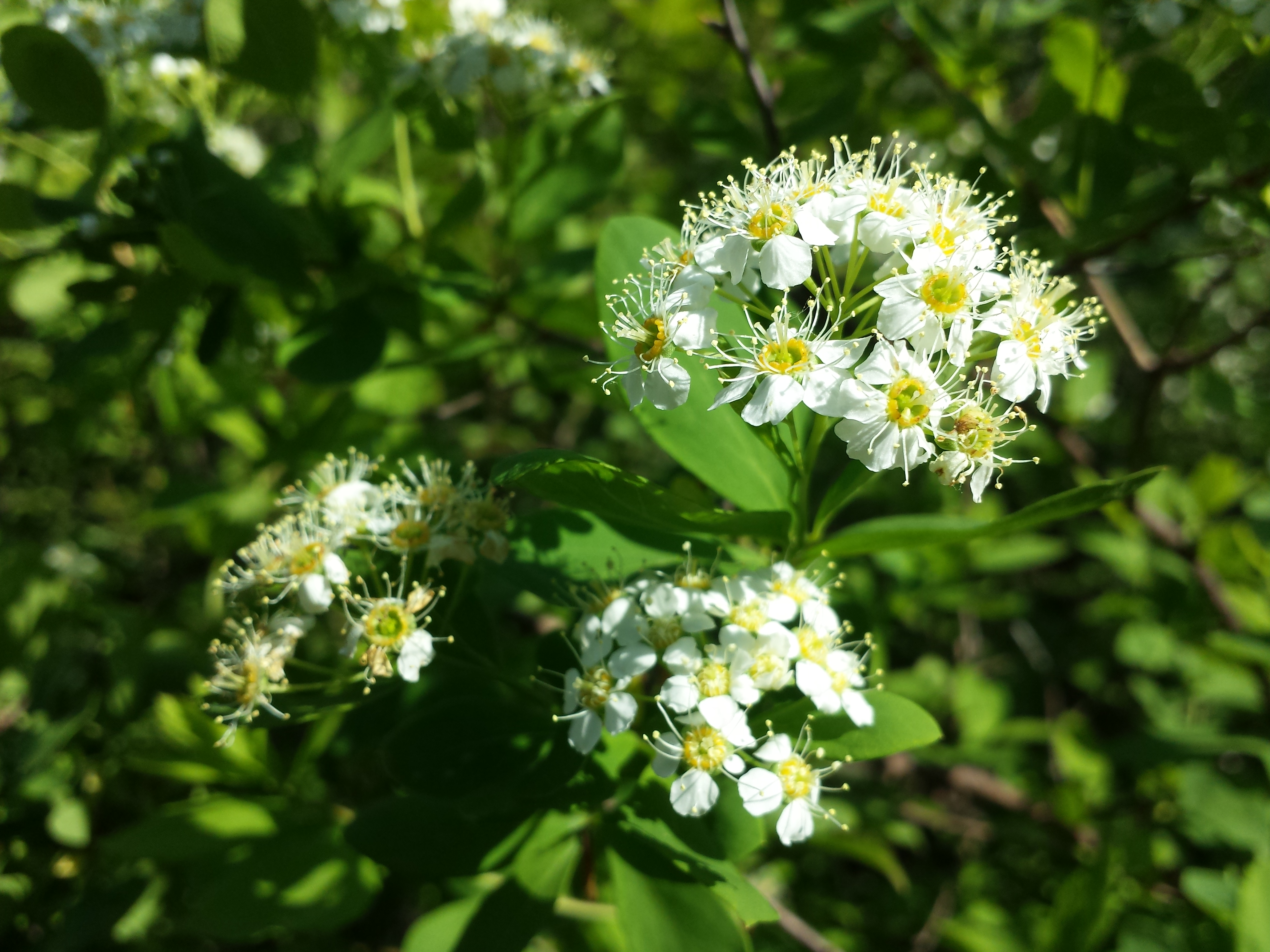 Branch with inflorescences Taxonym: Spiraea media ss Fischer et al. EfÖLS 2008 ISBN 978-3-85474-187-9 Location: Schlossberg near Winzendorf, district Wiener Neustadt, Lower Austria - ca. 500 m a.s.l. Habitat: xerotherme wood